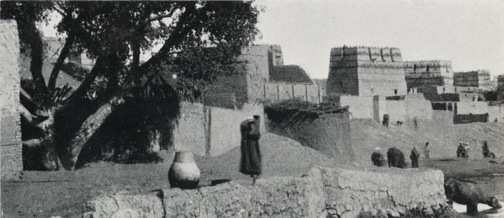 PIGEON HOUSES.Several buildings that house messenger pigeons.